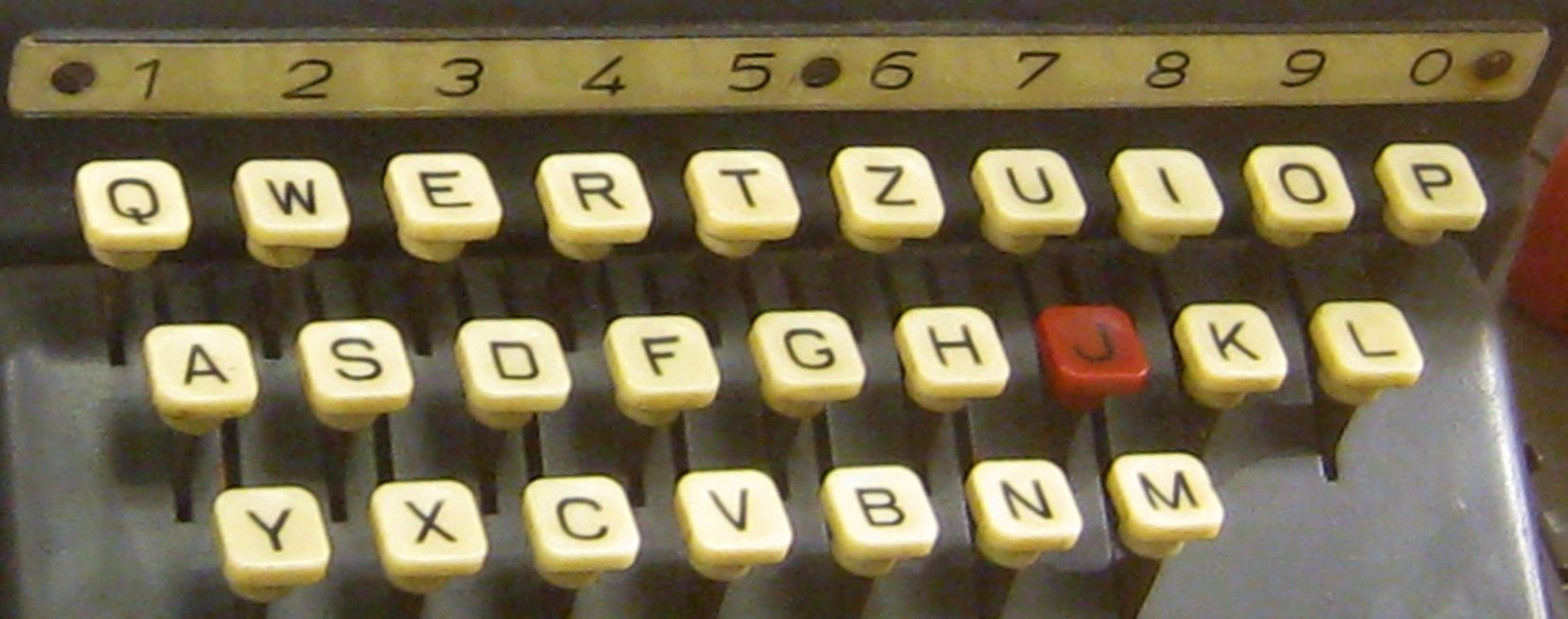 Keyboard of SG-41